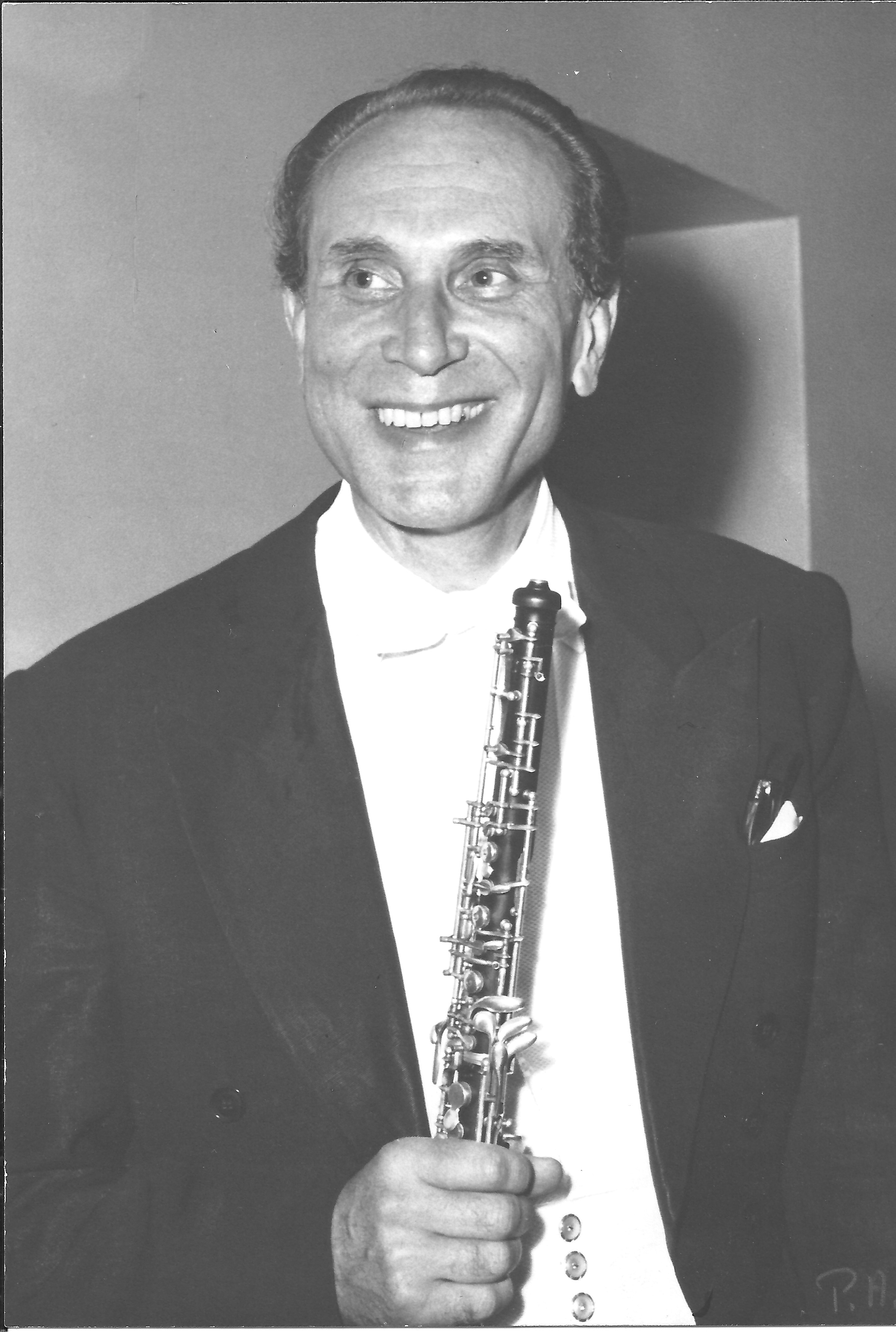 After Performing the Mozart oboe concerto at the 1961 Montreux Festival with the Concertgebouw Orchestra, conductor Eugen Jochum.